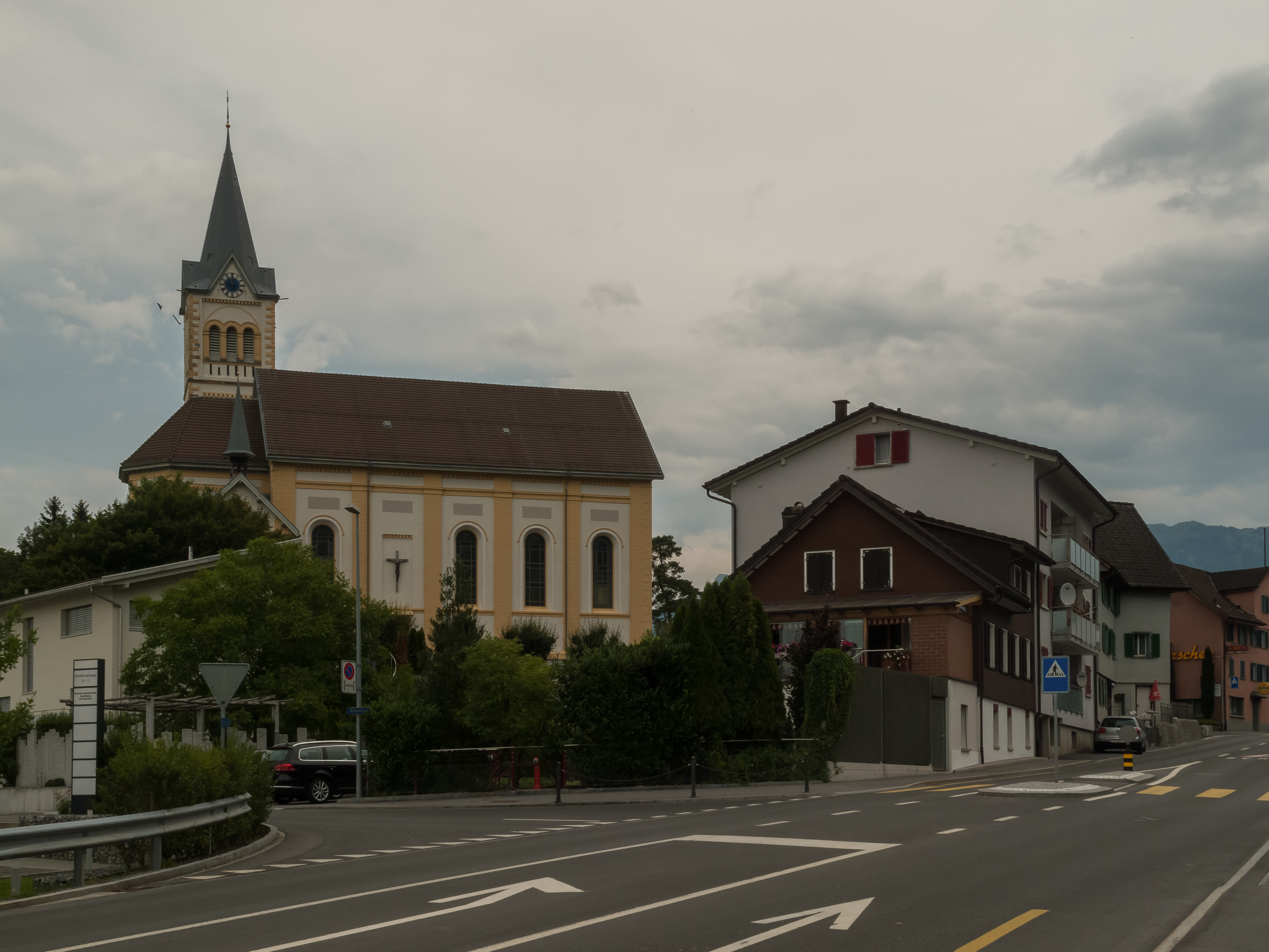 Reichenburg, Pfarrkirche Sankt Laurentius